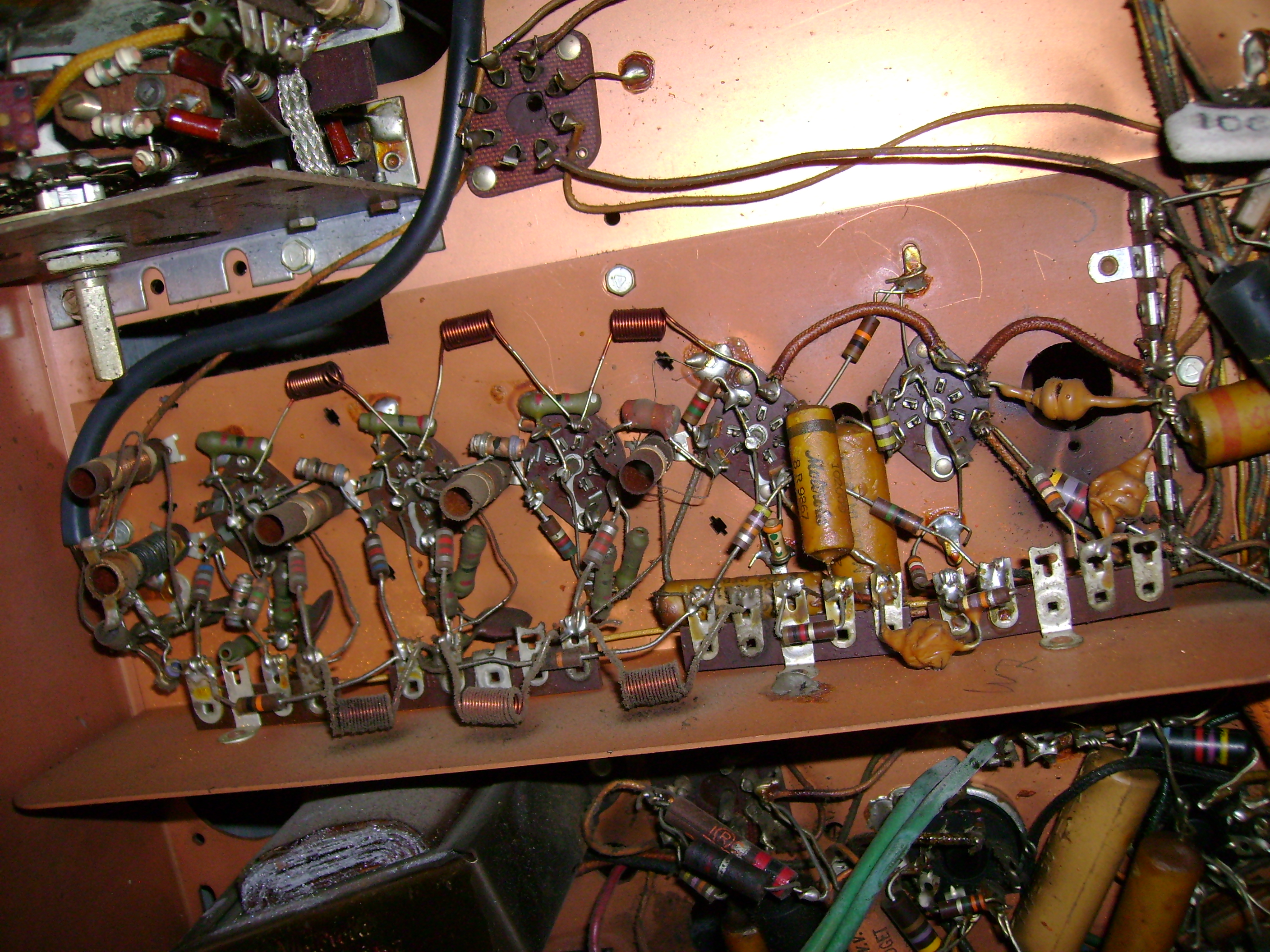 The IF stage from a Motorola 19K1 television set. Circa 1949. The actual set can be seen at